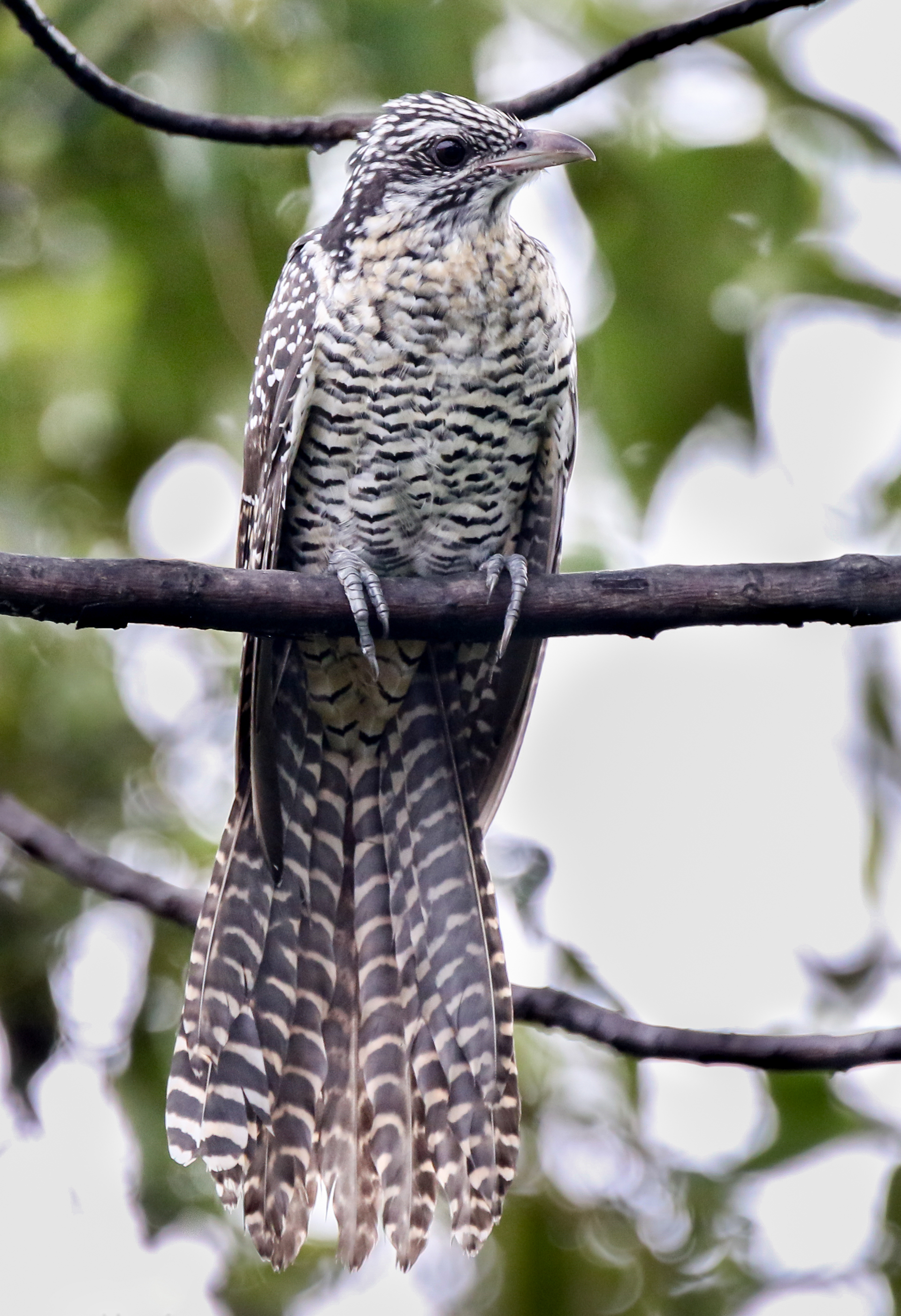 Female koel